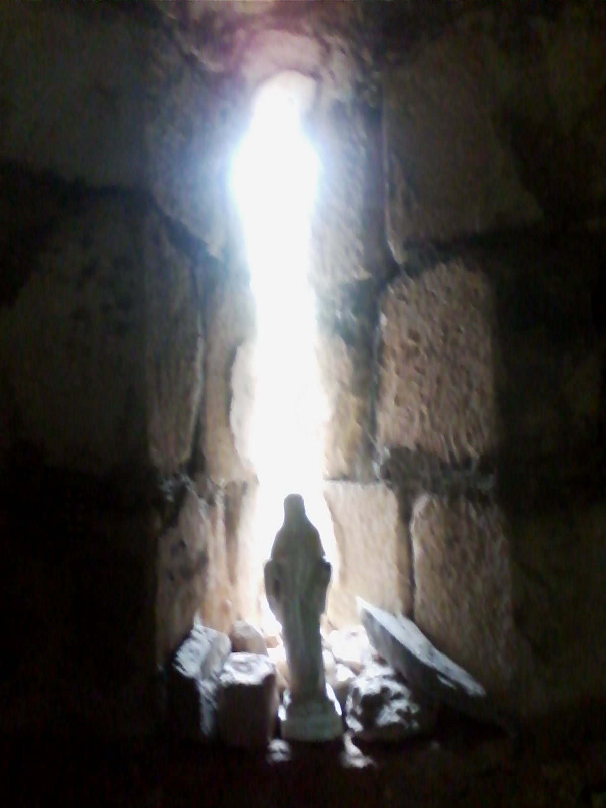 Romitorio di Santa Maria Maddalena - Montepescali - particolare interno